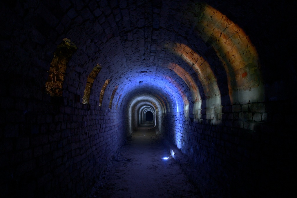 The underground of the Petrovaradin Fortress